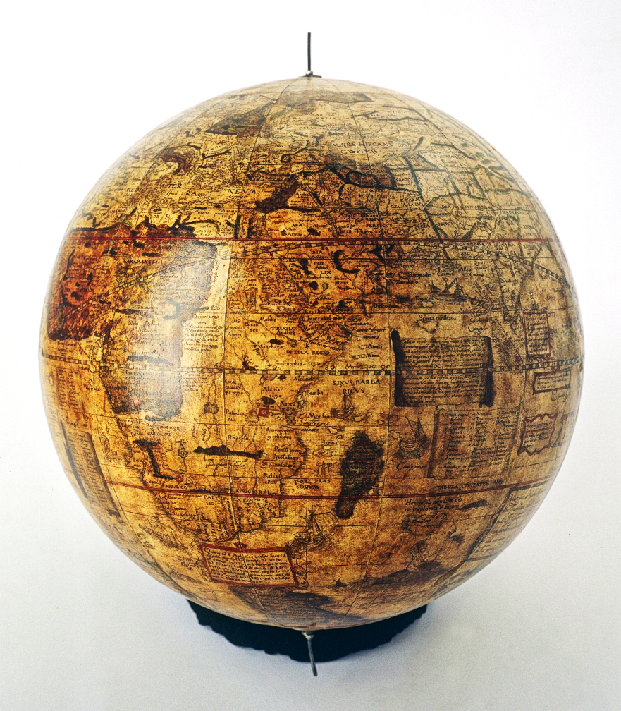 A view of the terrestrial globe of Gemma Frisius